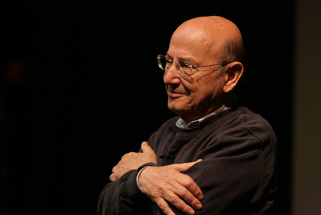 Greek director Theodoros Angelopoulos presenting his latest film, "The Dust of Time" in Athens, 26/4/2009.